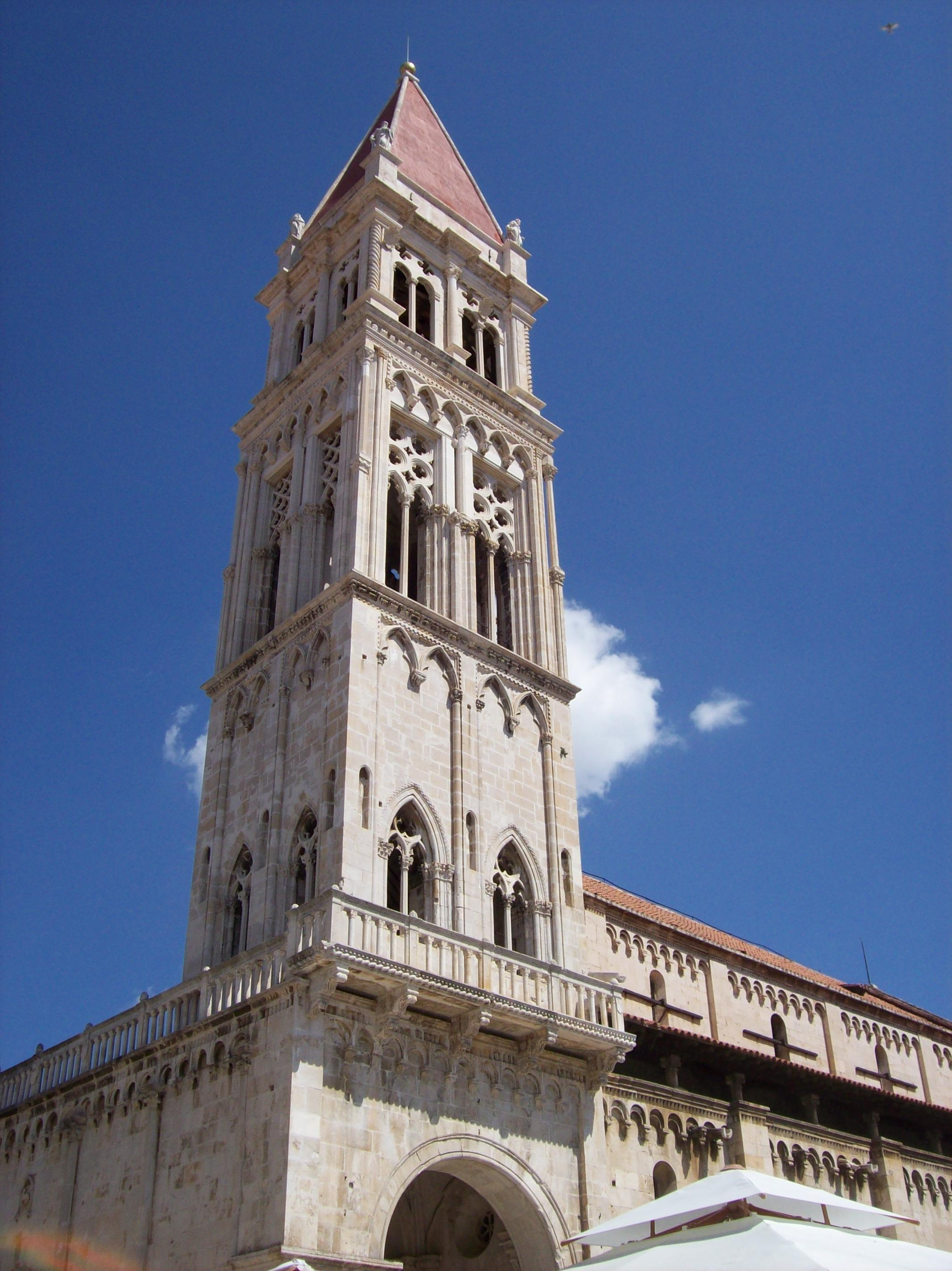 Trogir tower.